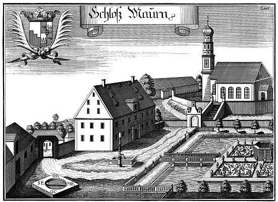 Castle Mauern made by Michael Wening in Topographia Bavariae c. 1700